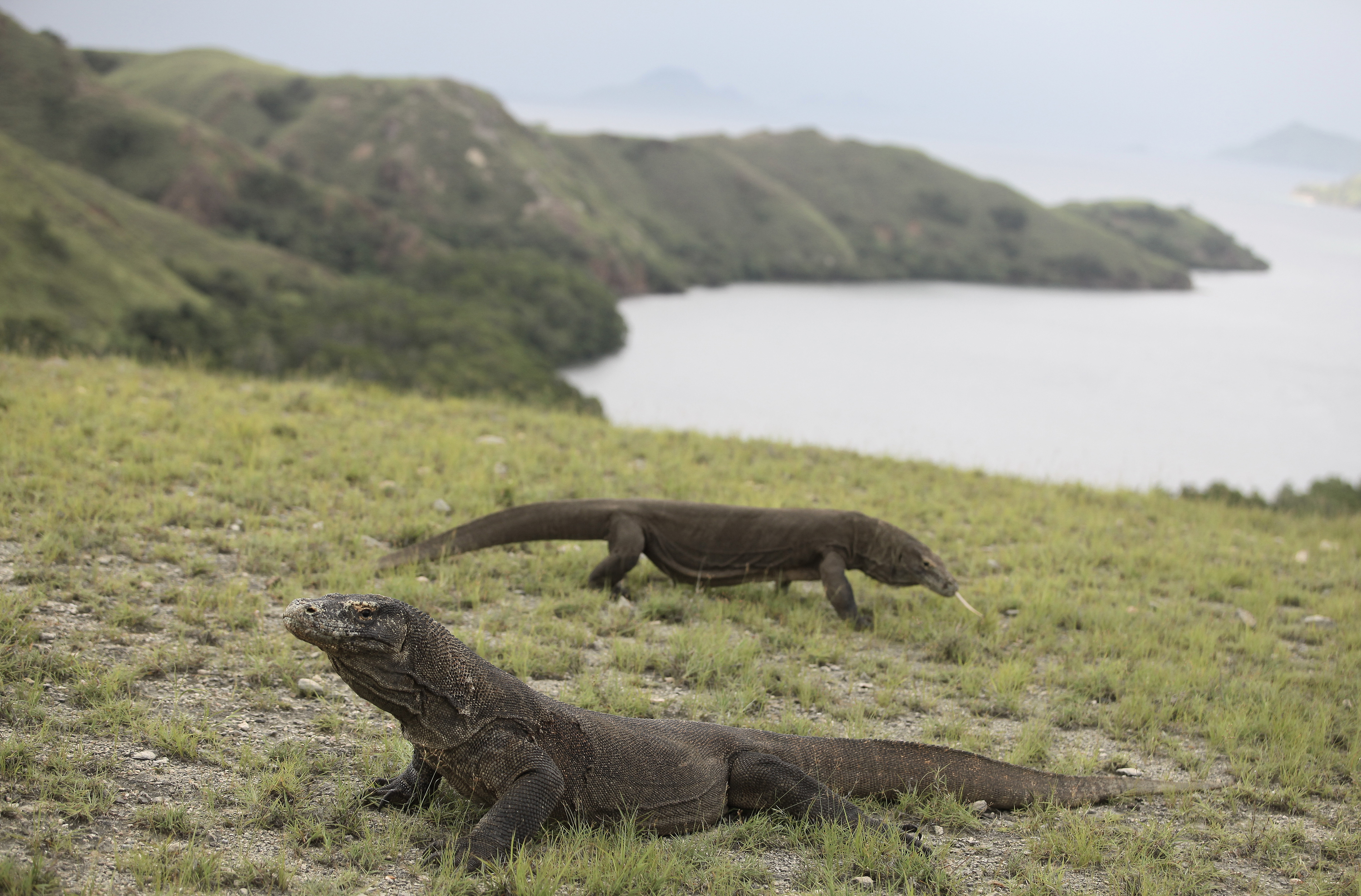 Komodo Dragon in Komodo natinonal park